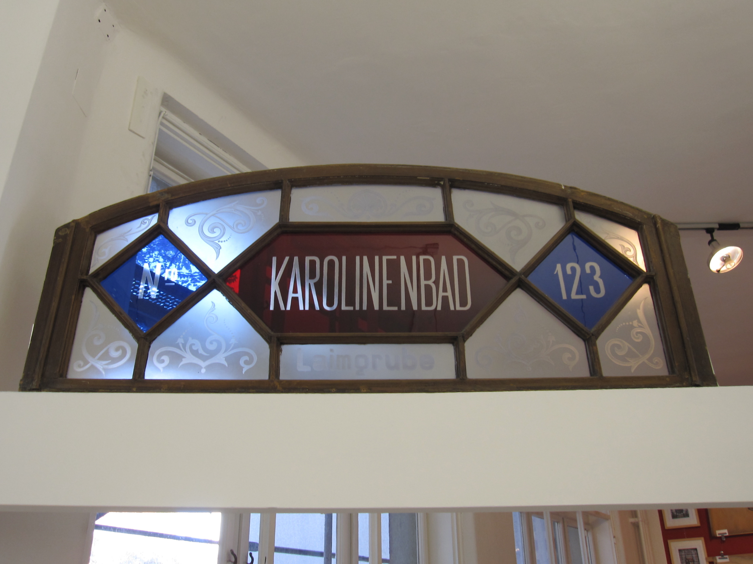 Old Stained glass window from the Karolinenbad, around 1900. Artist unknown. Glasmuseum Mariahilf.